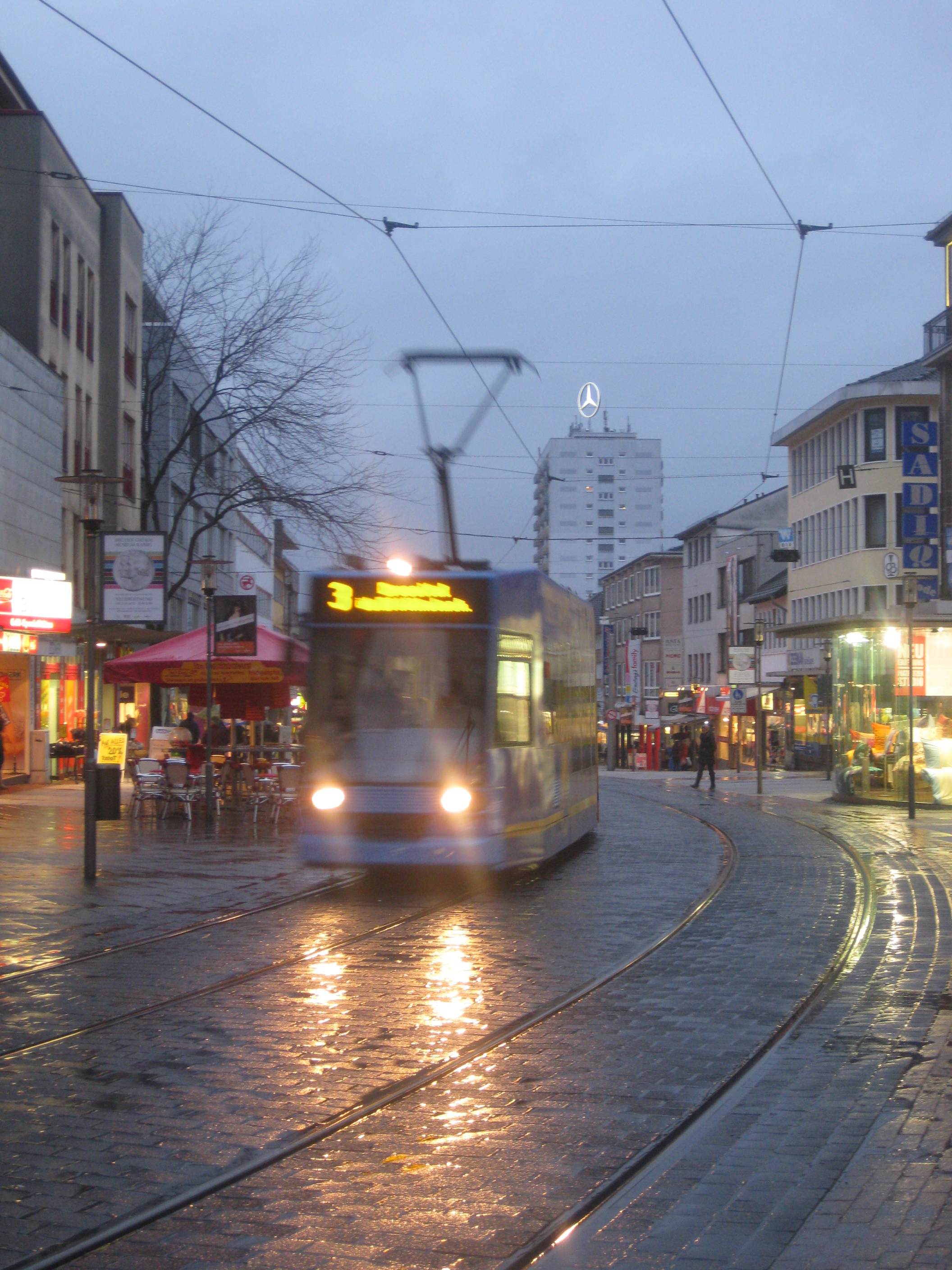 Untere Königsstraße Kassel